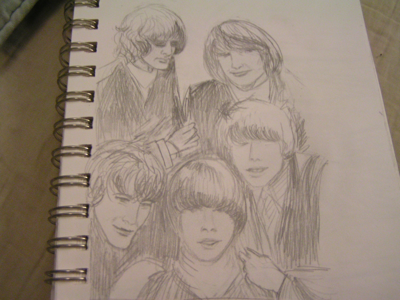 A sketch of American rock group The Byrds.